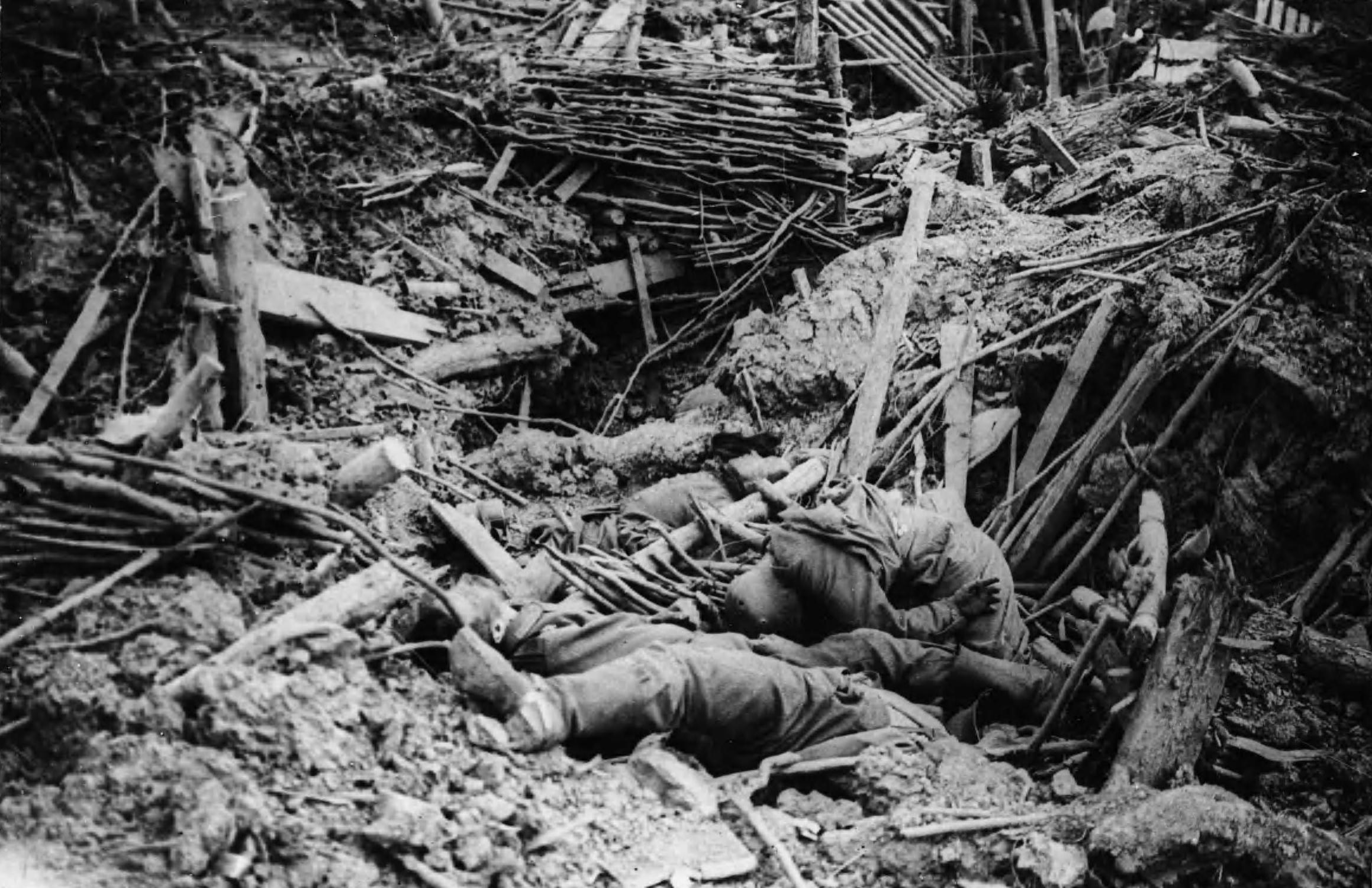 This is a disturbing image of a destroyed German trench. In the foreground the limp bodies of dead German soldiers lie amidst the rubble. It is difficult to distinguish the soldiers from the chaos around them, but four bodies are clearly visible. One man, wearing a helmet, has been pushed forward by the blast and, although dead, appears to crouch forward. The entire scene is a maelstrom of mud, splintered wood and dead bodies.Original reads: 'OFFICIAL PHOTOGRAPHS TAKEN ON THE BRITISH WESTERN FRONT. Smashed up German trench on Messines Ridge with dead.'Photographs from the Haig "Official Photographs" series